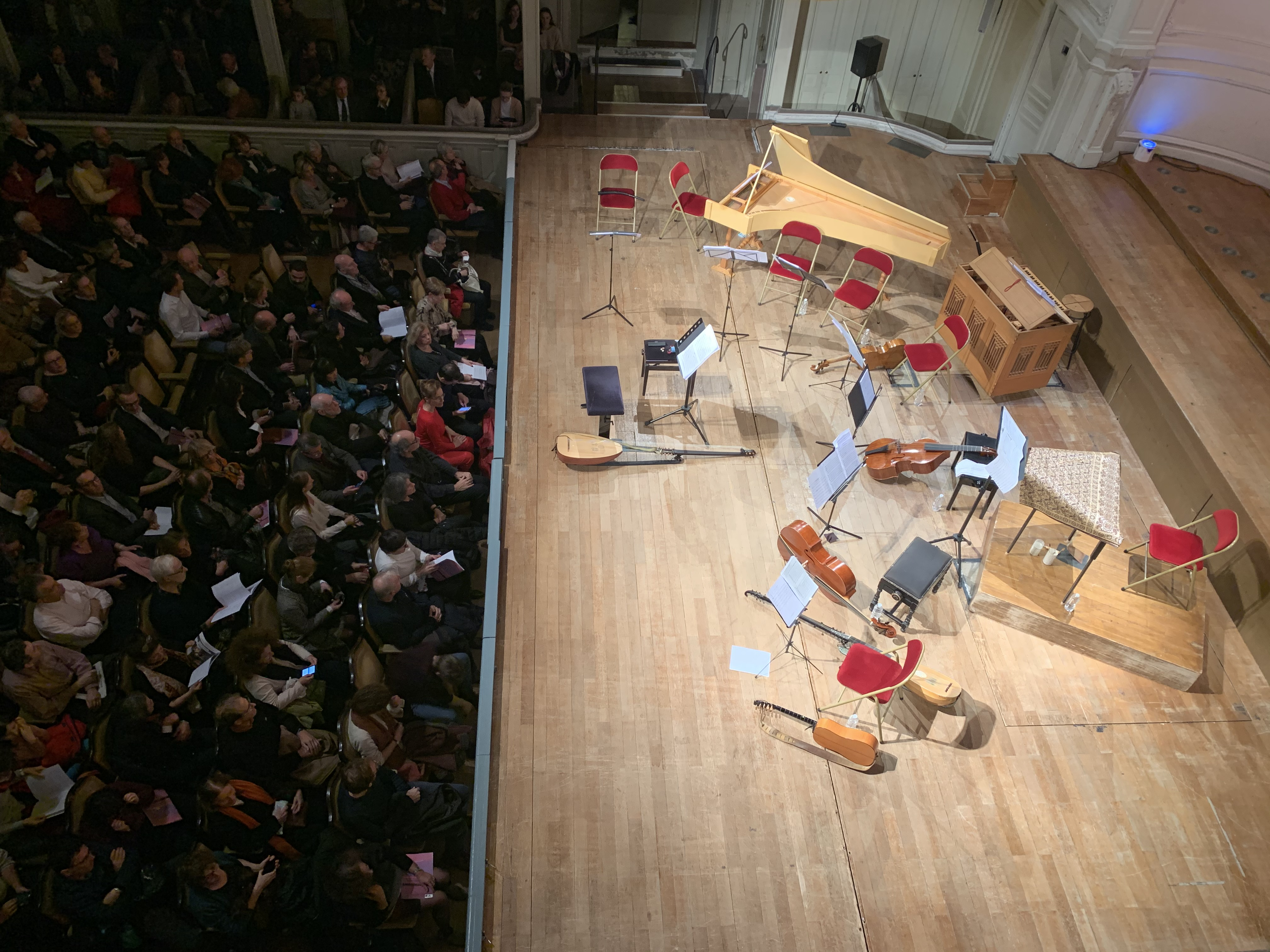 Inside Salle Gaveau in Paris before a performance